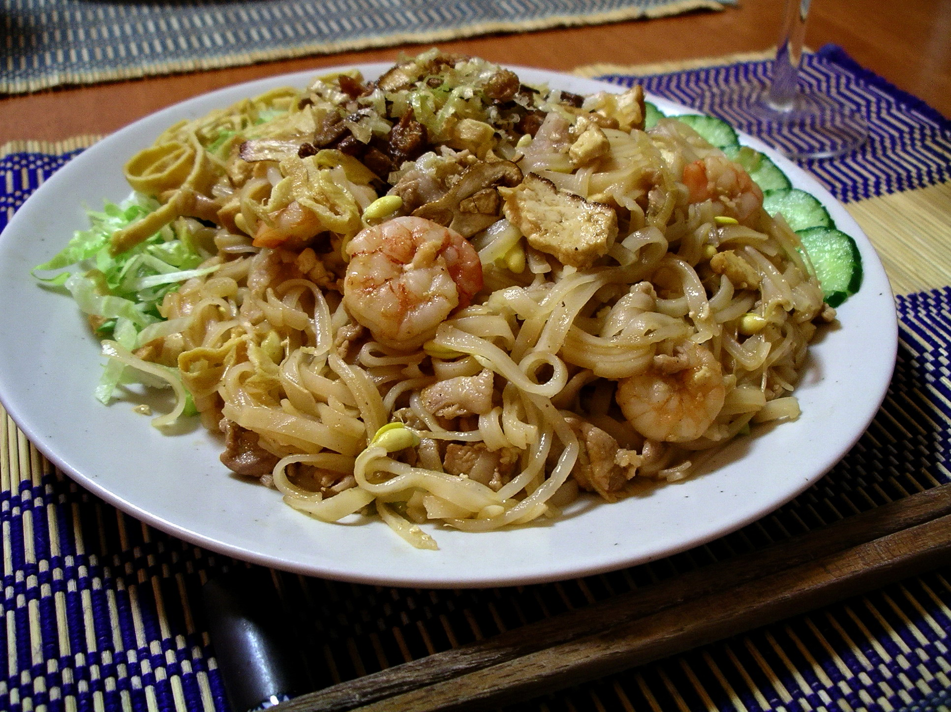 Yaki-bifun (friend noodles) for my husband's birthday.[1]焼きビーフン